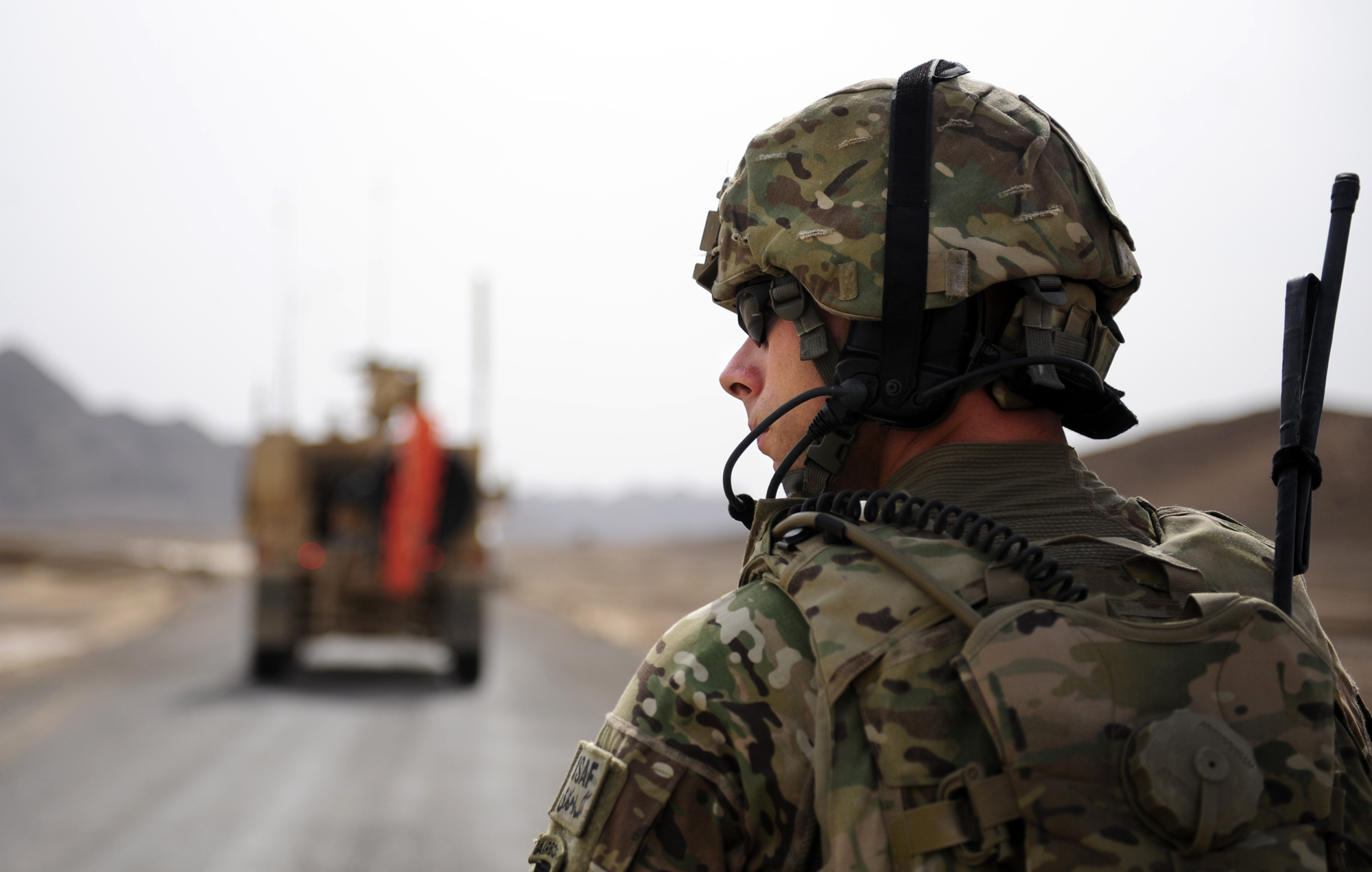 U.S. Army Staff Sgt. Joshua White pulls security during a road assessment mission in Farah province, Afghanistan, May 9, 2012.